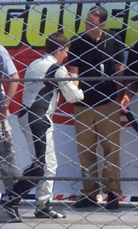 Future NASCAR driver Brett Moffitt (left) during driver introductions before an American Speed Association race at the Milwaukee Mile. Cropped from my image posted at flickr [1].